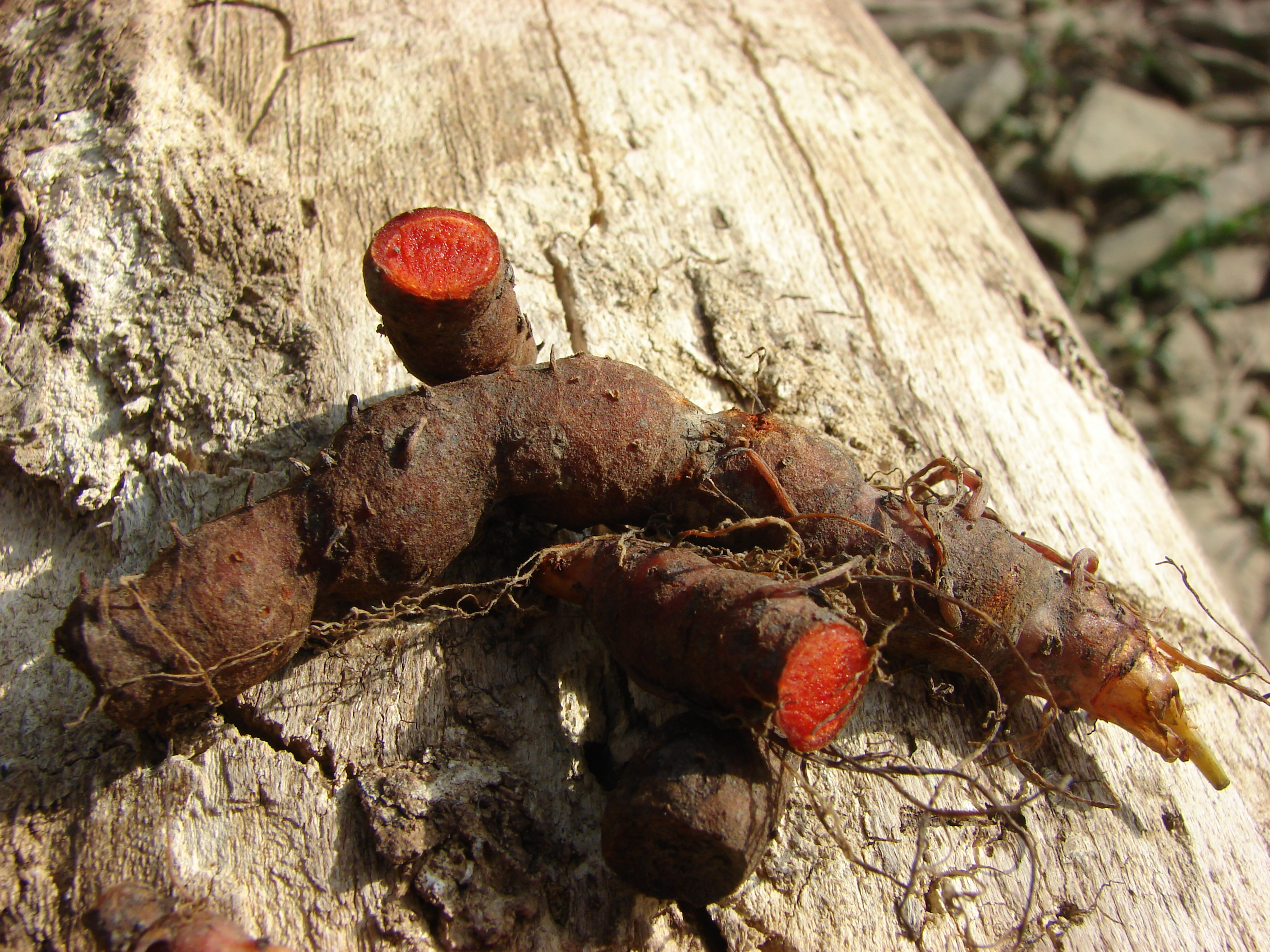 Wild Flower, bloodroot